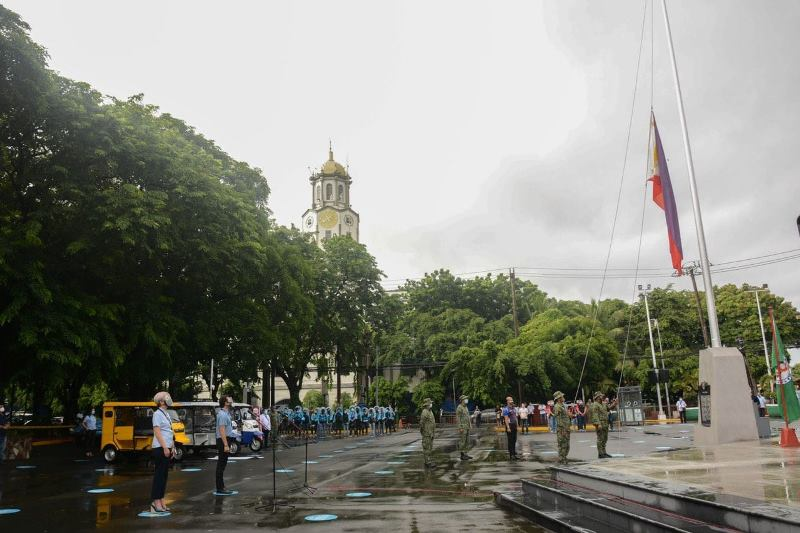 The Philippine flag was put at half-mast during the flag-raising ceremony of the Manila City Hall as the nation’s capital mourns the passing of former Mayor Alfredo Lim. Mayor Francisco ‘Isko Moreno’ Domagoso and Vice Mayor Honey Lacuna-Pangan also observed a moment of silence to offer a prayer. —JNL